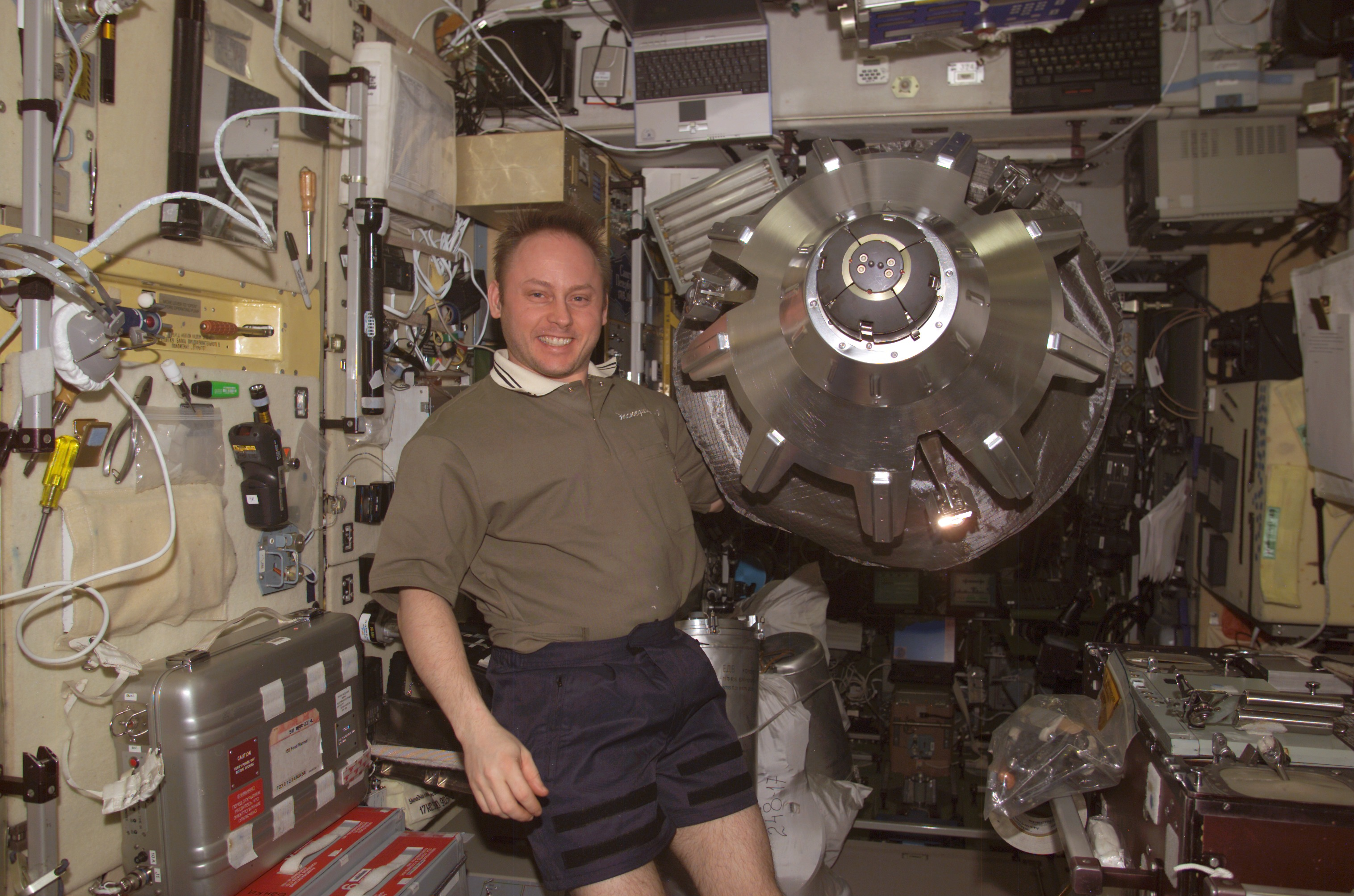 Astronaut Edward M. (Mike) Fincke, Expedition 9 NASA ISS science officer and flight engineer, holds the Progress 15 supply vehicle probe-and-cone docking mechanism in the Zvezda Service Module of the International Space Station (ISS).